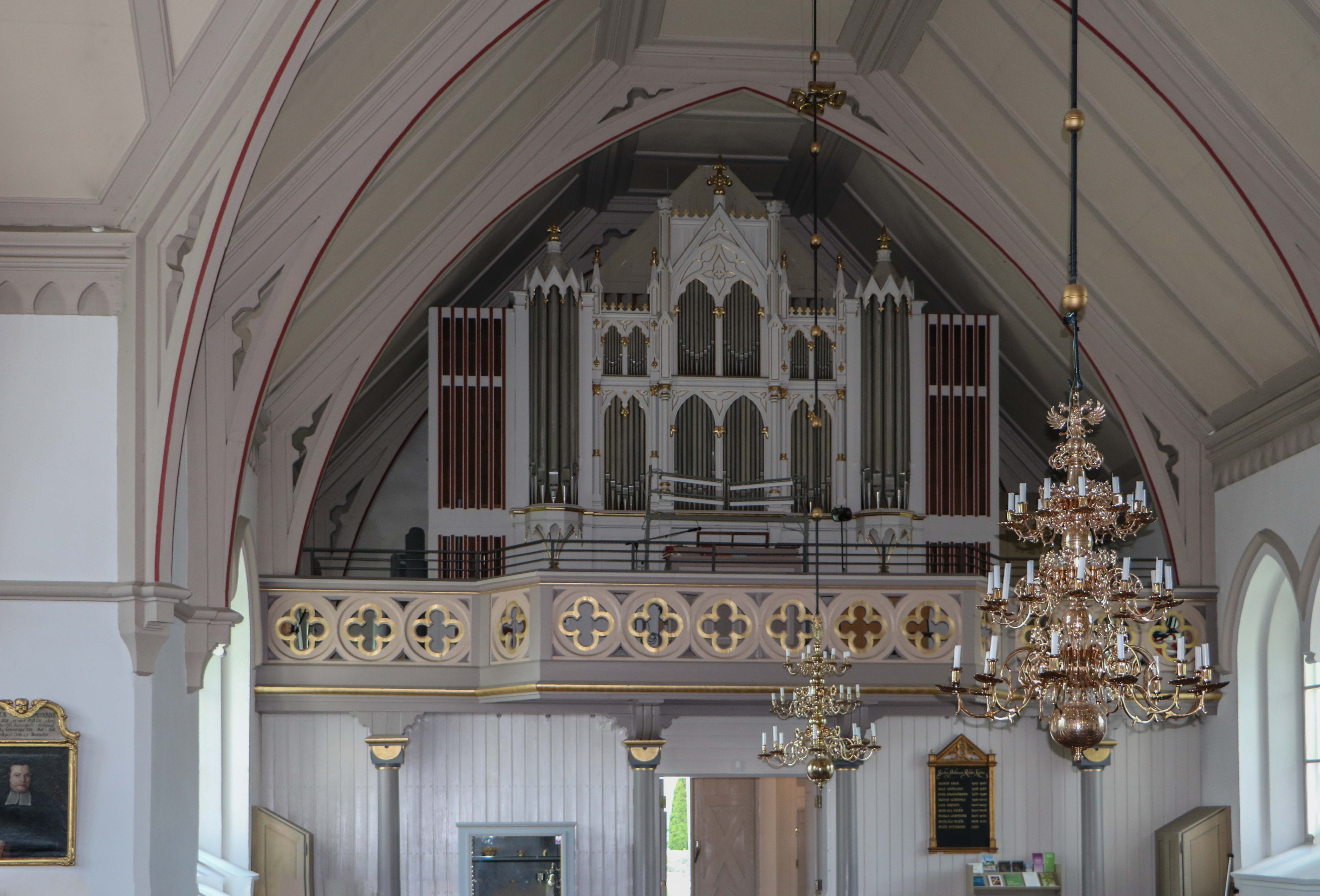 Rödeby Church. The organ